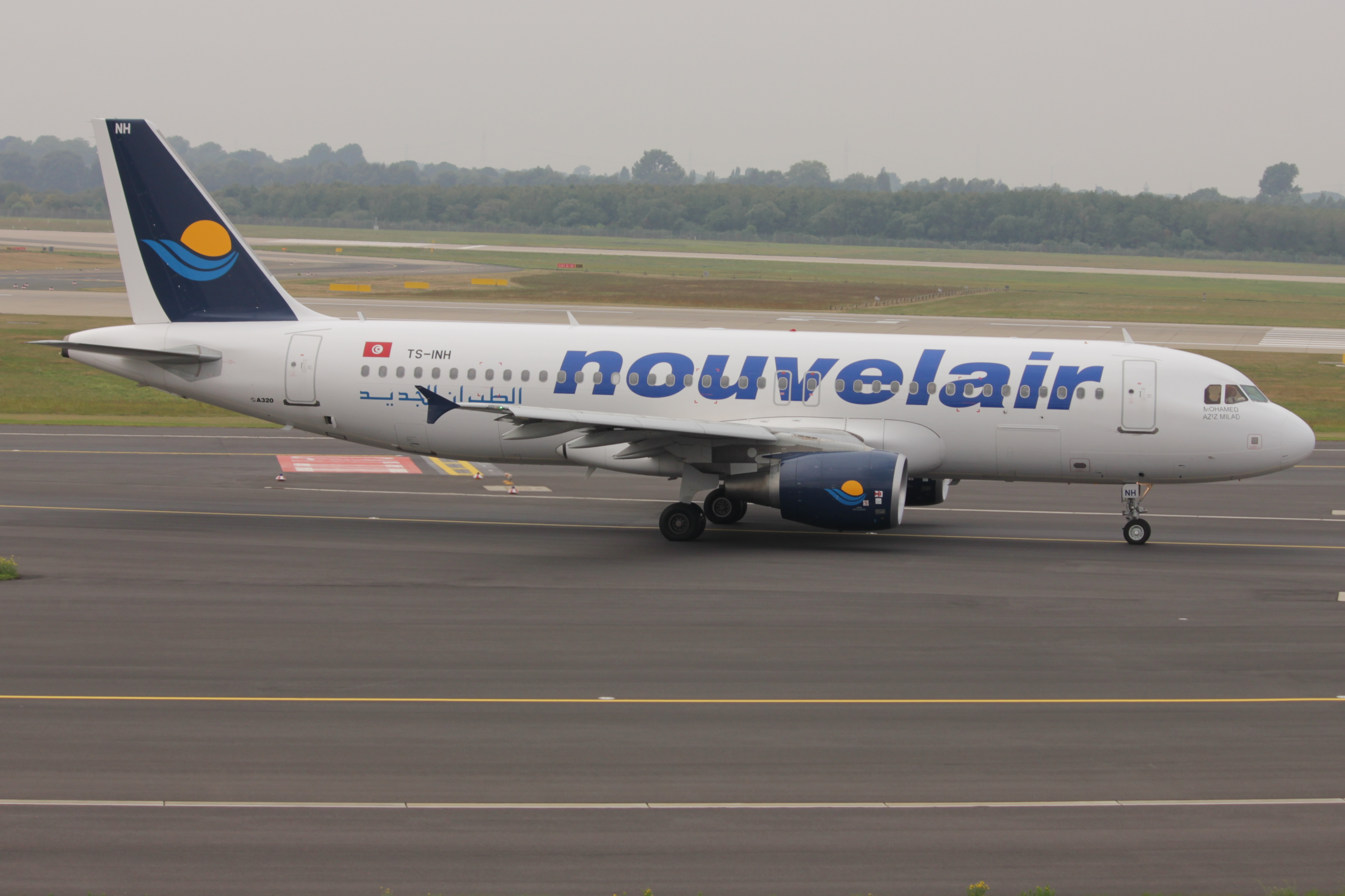 A320 of Nouvelair taxies at DUS.